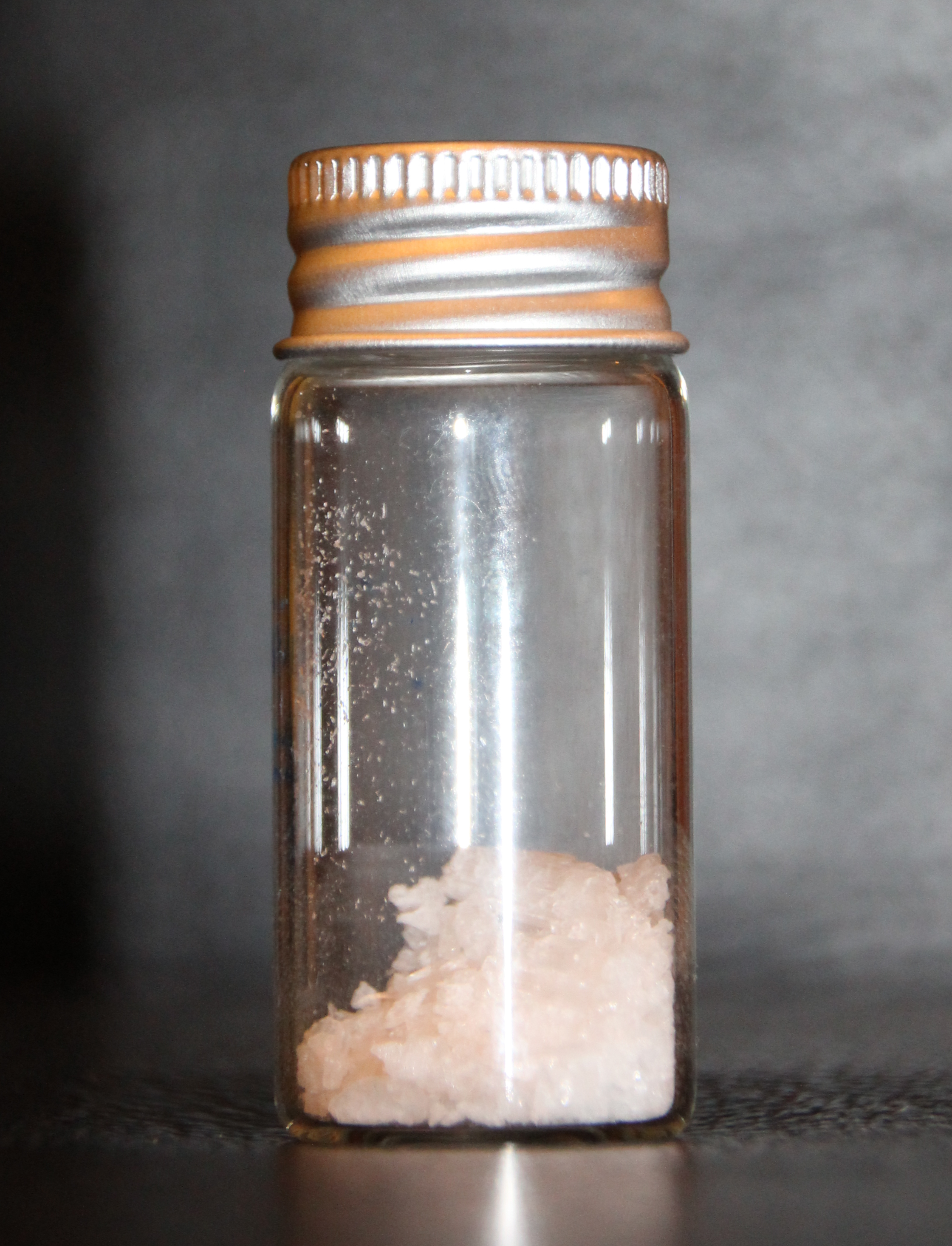 Sample of succinic acid